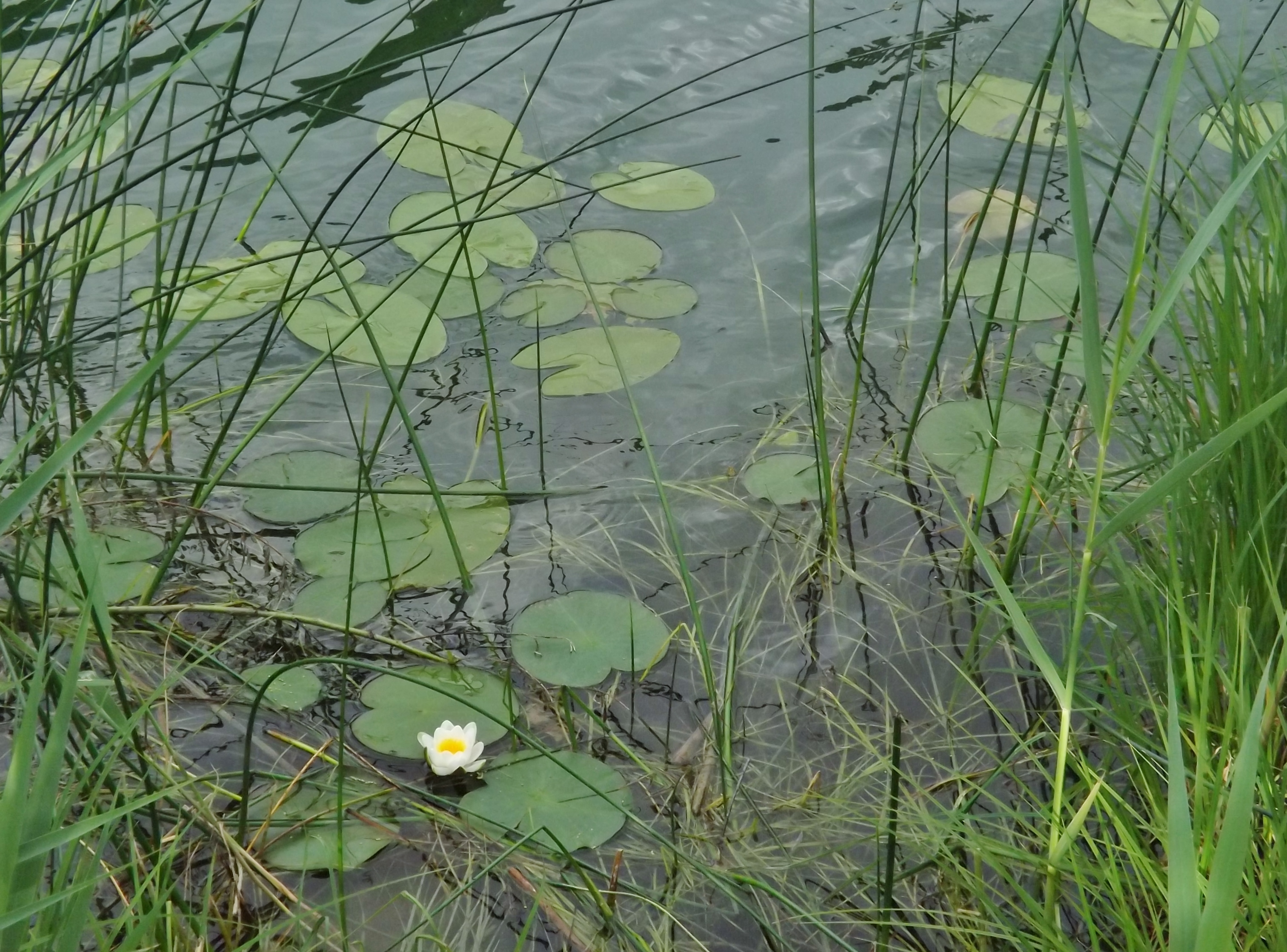 Sight of water-lilies on the lac de la Thuile lake banks, on the French commune of La Thuile near Chambéry, in Savoie.